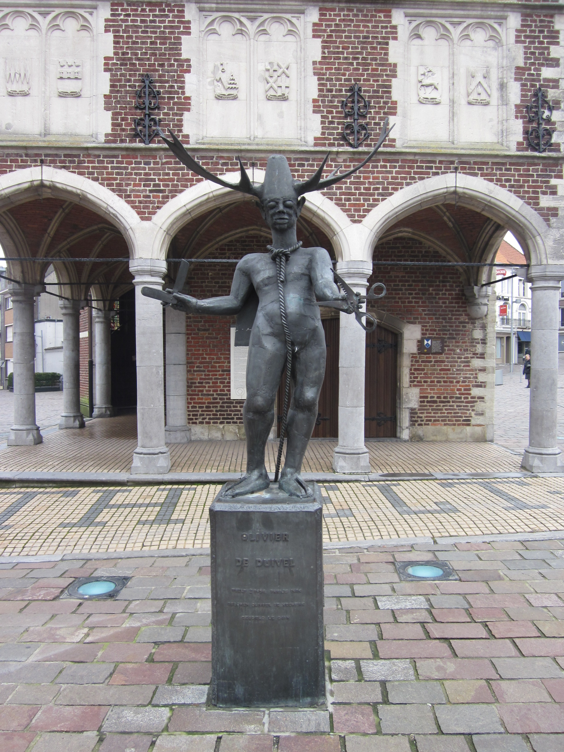 Statue of Olivier De Neckere, Olivier the Devil or Olivier le Daim in front of the belfry of Tielt (Belgium)